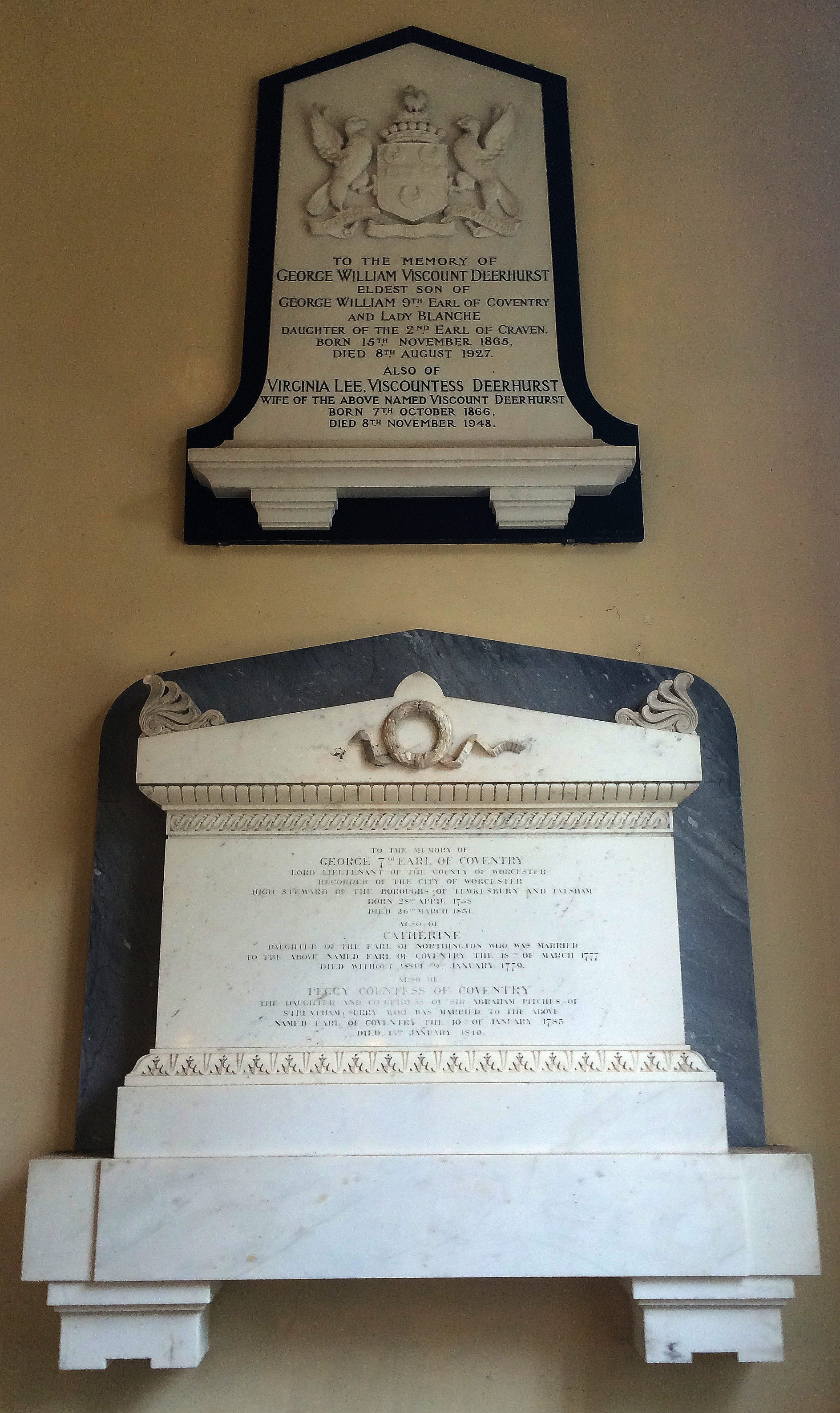 St Mary Magdalene, Croome, Worcs: Wall tablets to George William Coventry, Viscount Deerhurst (1865–1927), eldest son of the 9th Earl of Coventry, and George William Coventry, 7th Earl of Coventry (1758–1831)